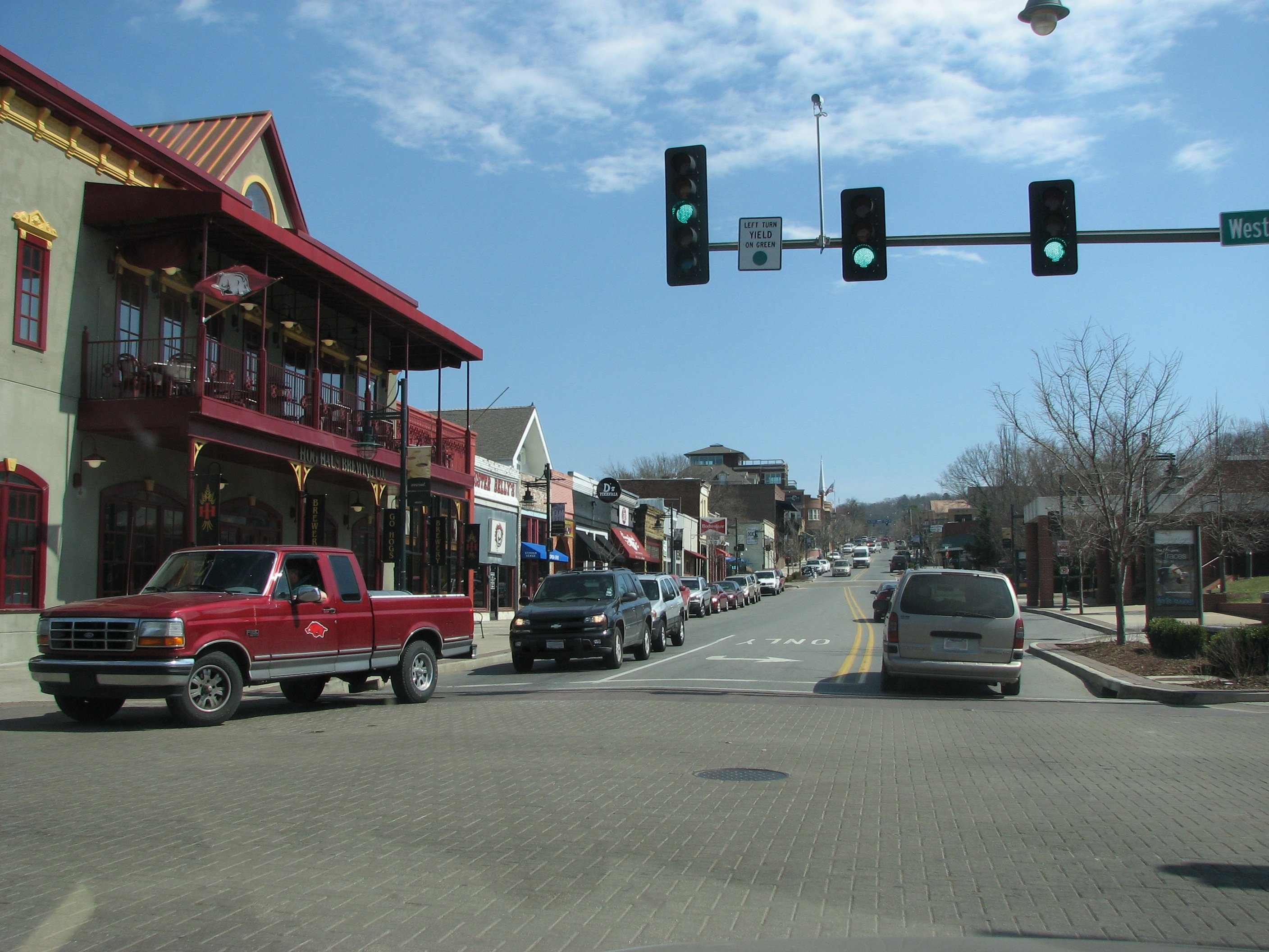 Downtown Fayetteville, Arkansas